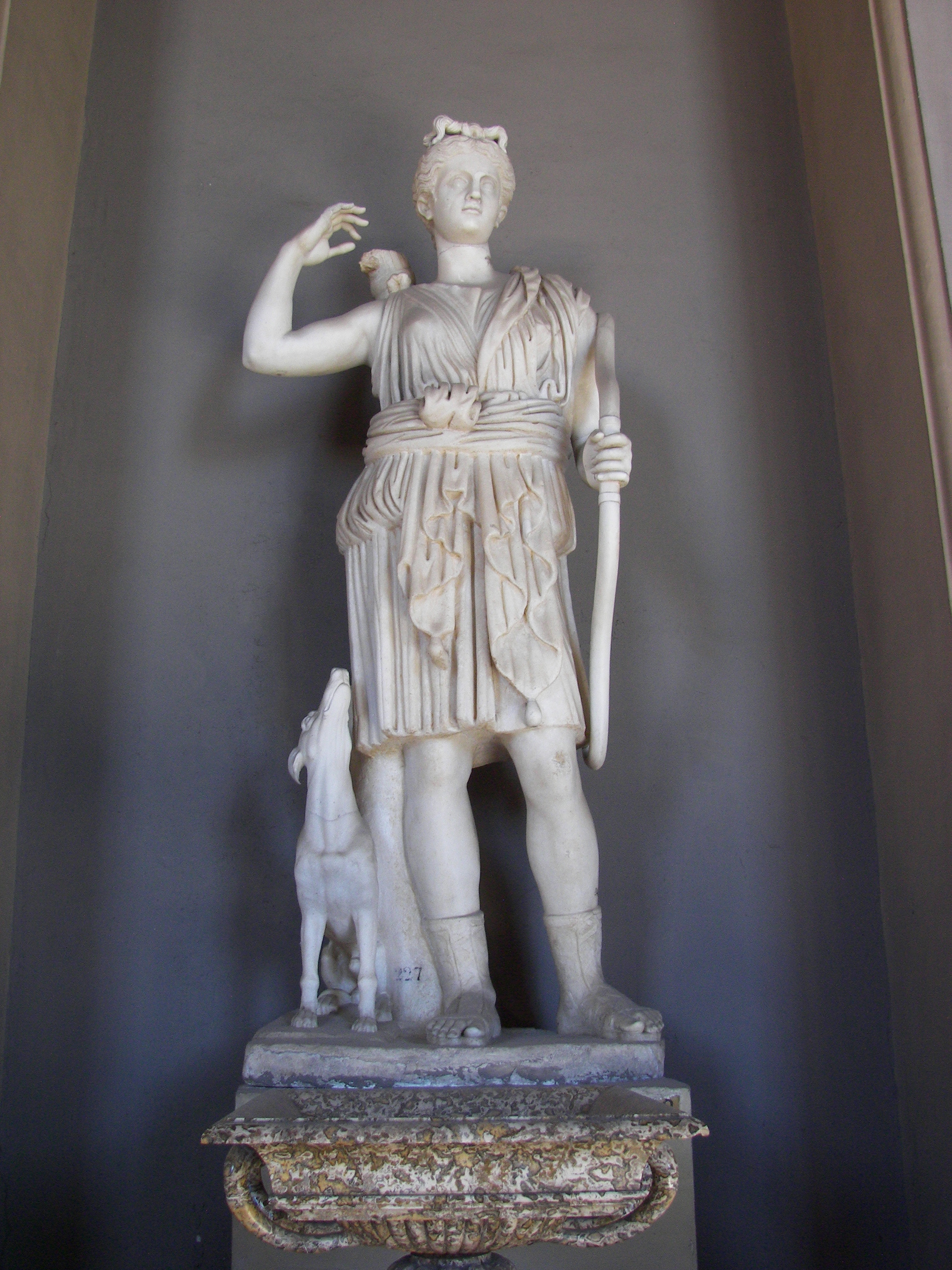 Statue of Diana (Artemis) the Huntress in the Vatican Museums.